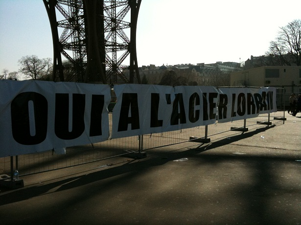 L'acier Lorrain sous la tour Eiffel qui est en fer ( lorrain ) , mars 2012.